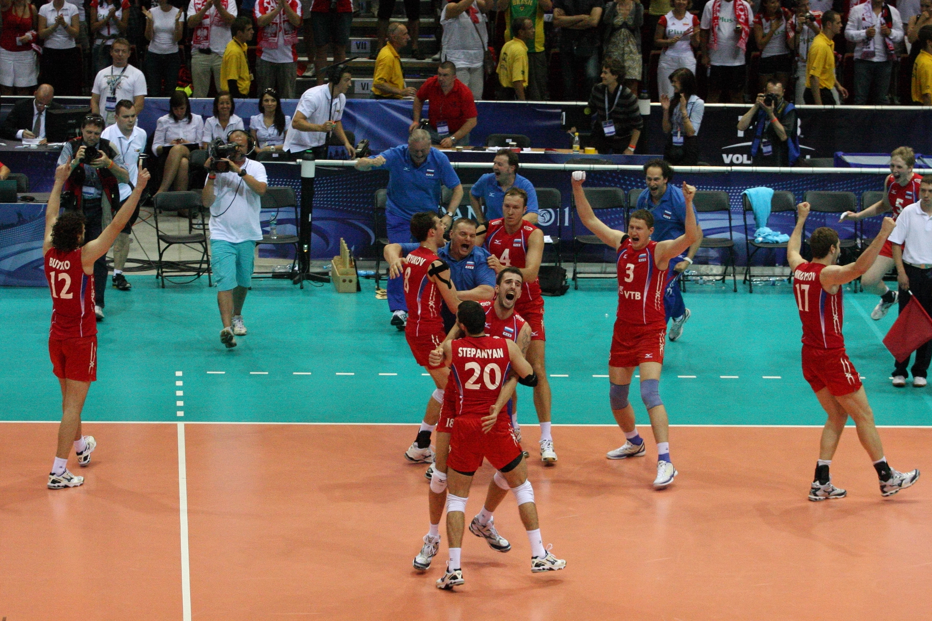 World League Final, Gdańsk 2011 Brazil vs Russia (2:3)